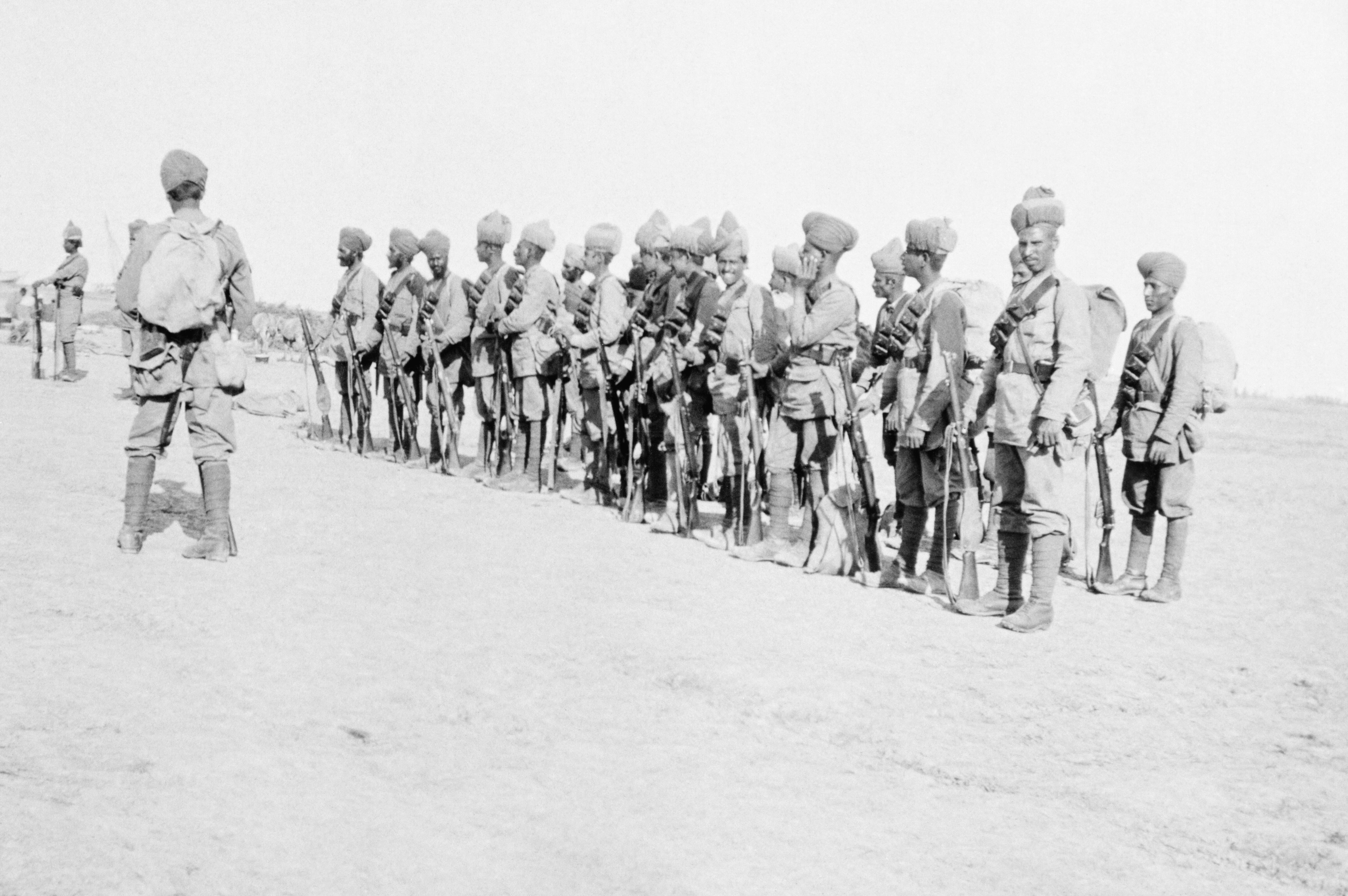 The Service of Sergeant Percy Elgey With the 1/4th Somerset Light Infantry in India and Mesopotamia 1914-1918 Men of an Indian regiment from the 37th Indian Brigade, 3rd Indian Division, at Basra in Mesopotamia.